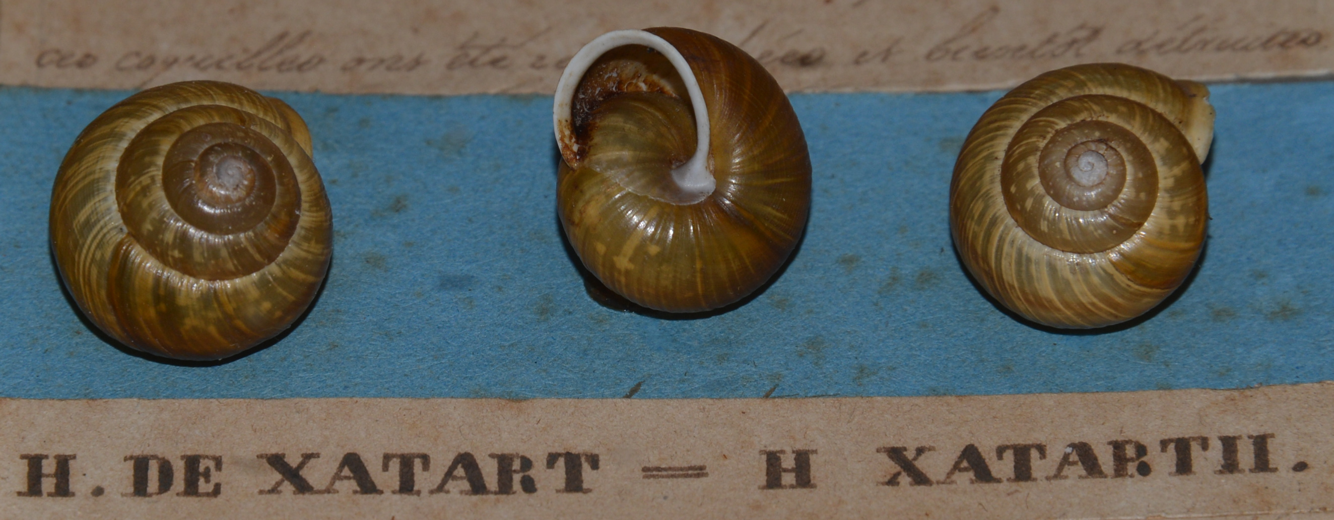 Three Arianta xatartii (syn. Helix xatartii) shells, displayed at Perpignan natural history museum in a small «showcase made and offered to the société philomatique de Perpignan, by Mr Aleron, on 6 April 1836 ».